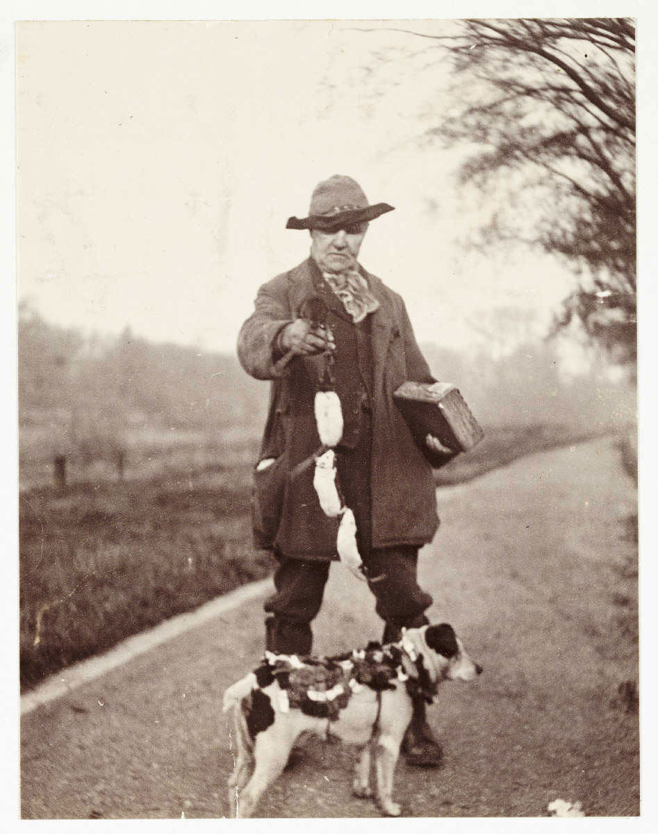 Rat Catcher and his Dog. Collection of (National Media Museum (photographer unknown)